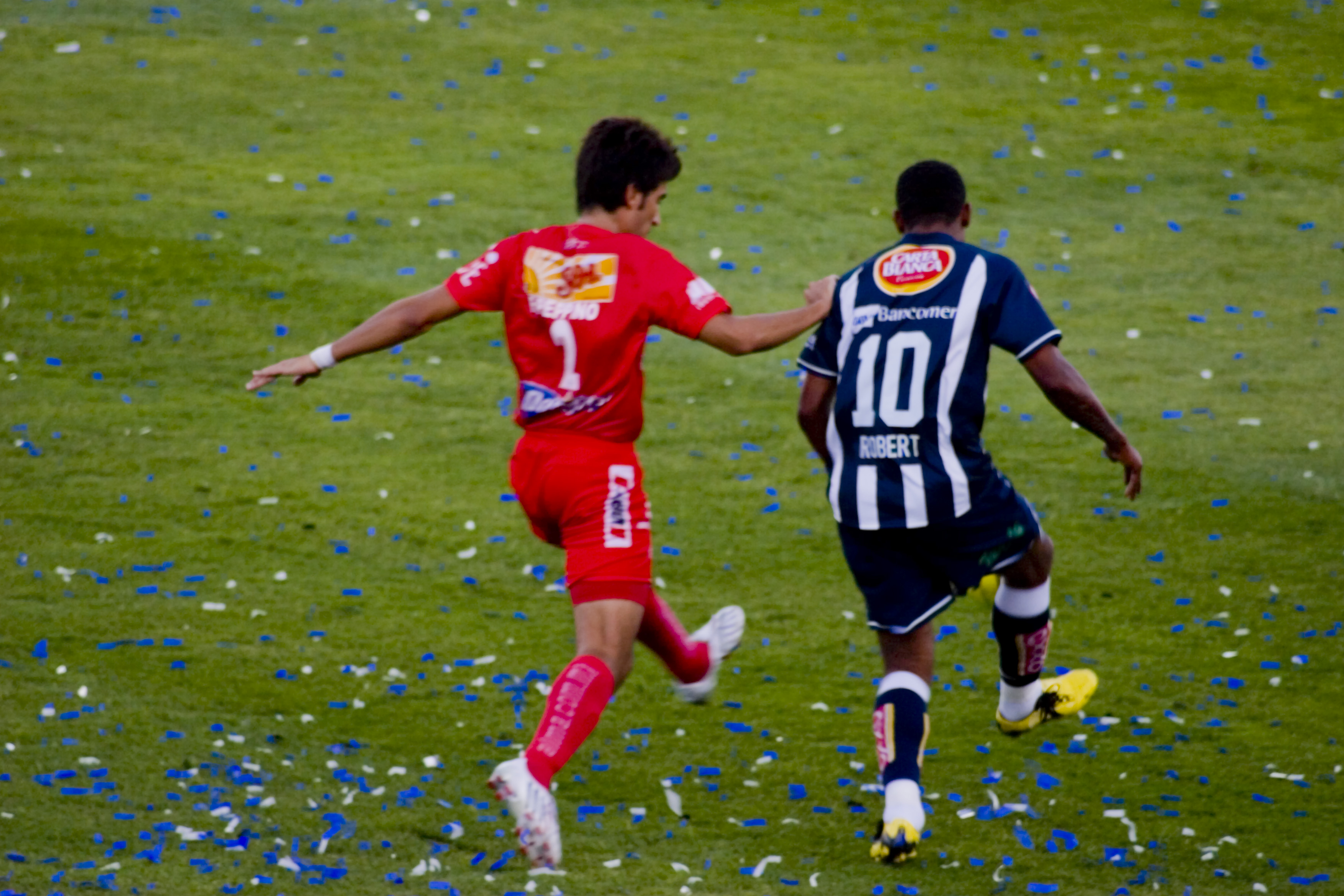 Footballers Franco Pepino (left, from Veracruz) and Robert de Pinho (right, from Monterrey) during an official match at the Estadio Tecnológico.